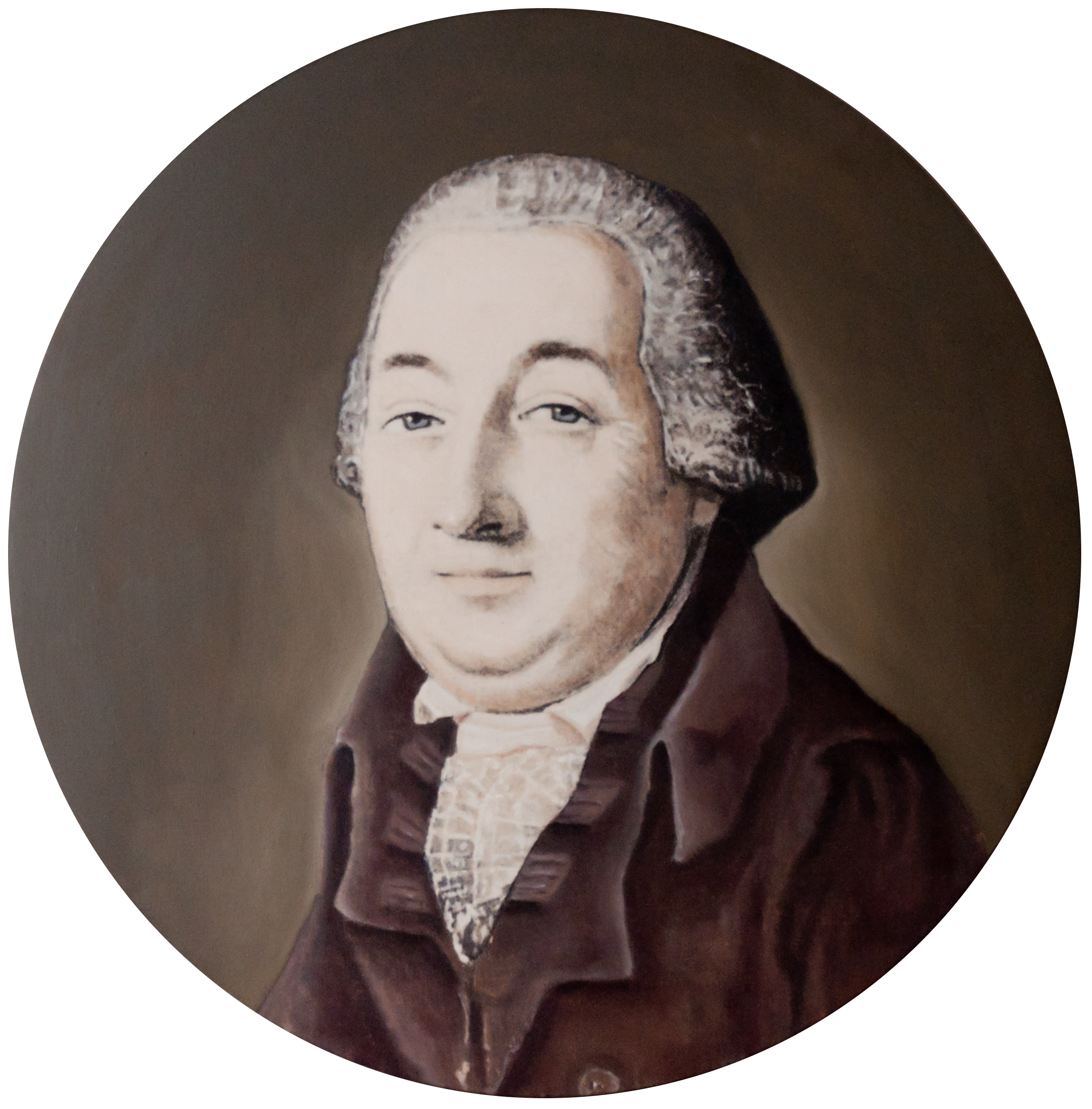 Portrait medaillon of Johann Gottfried Brügelmann